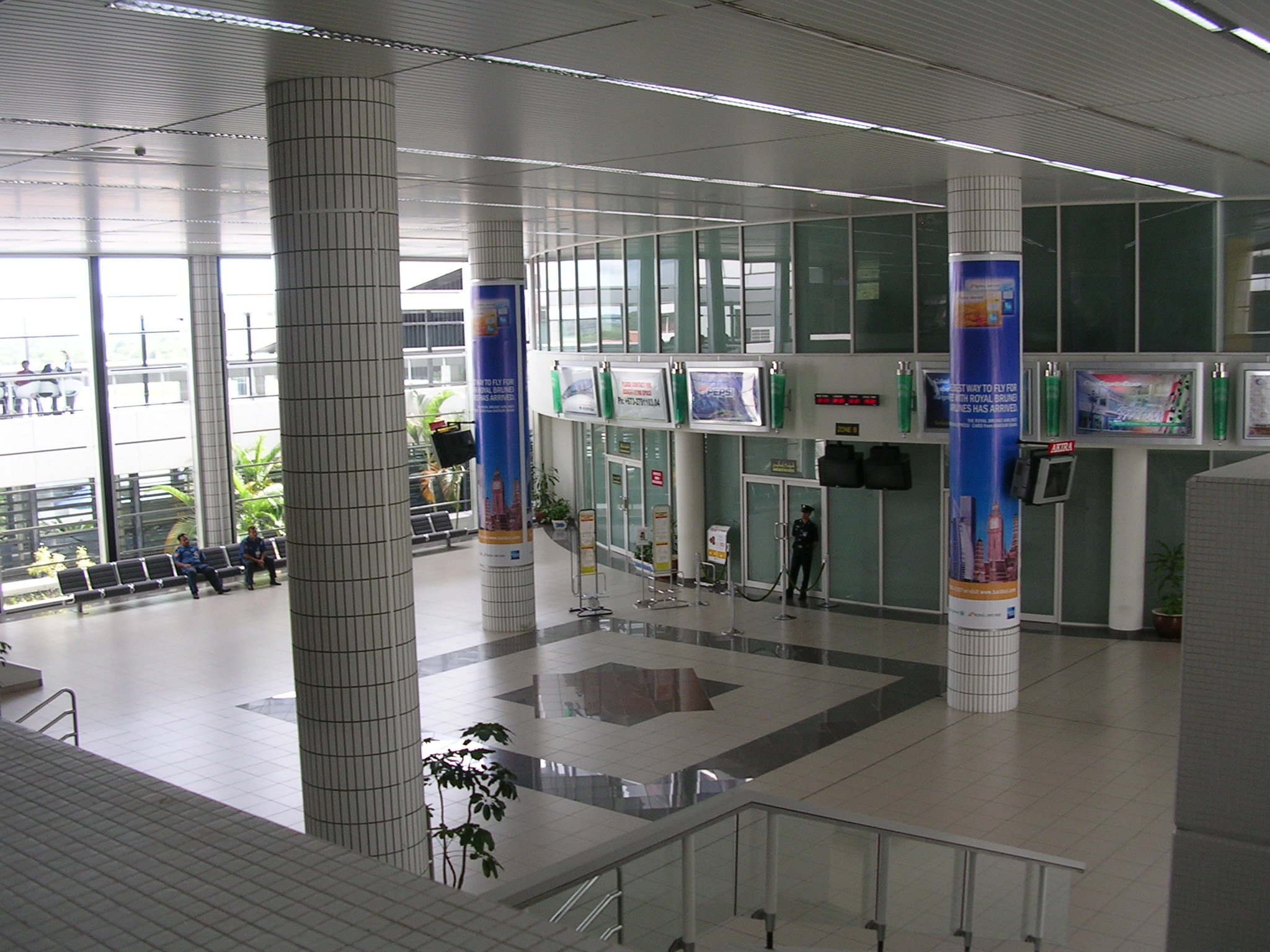 Departures area at Brunei International Airport.